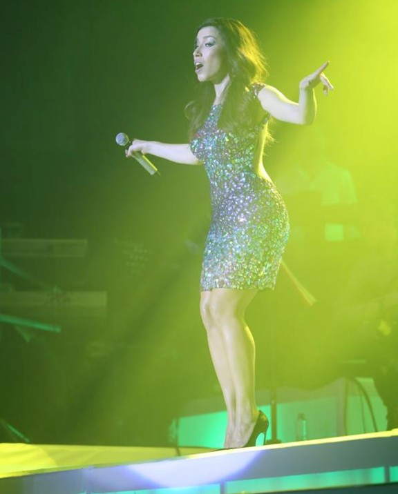 Burcu Güneş Bostanci